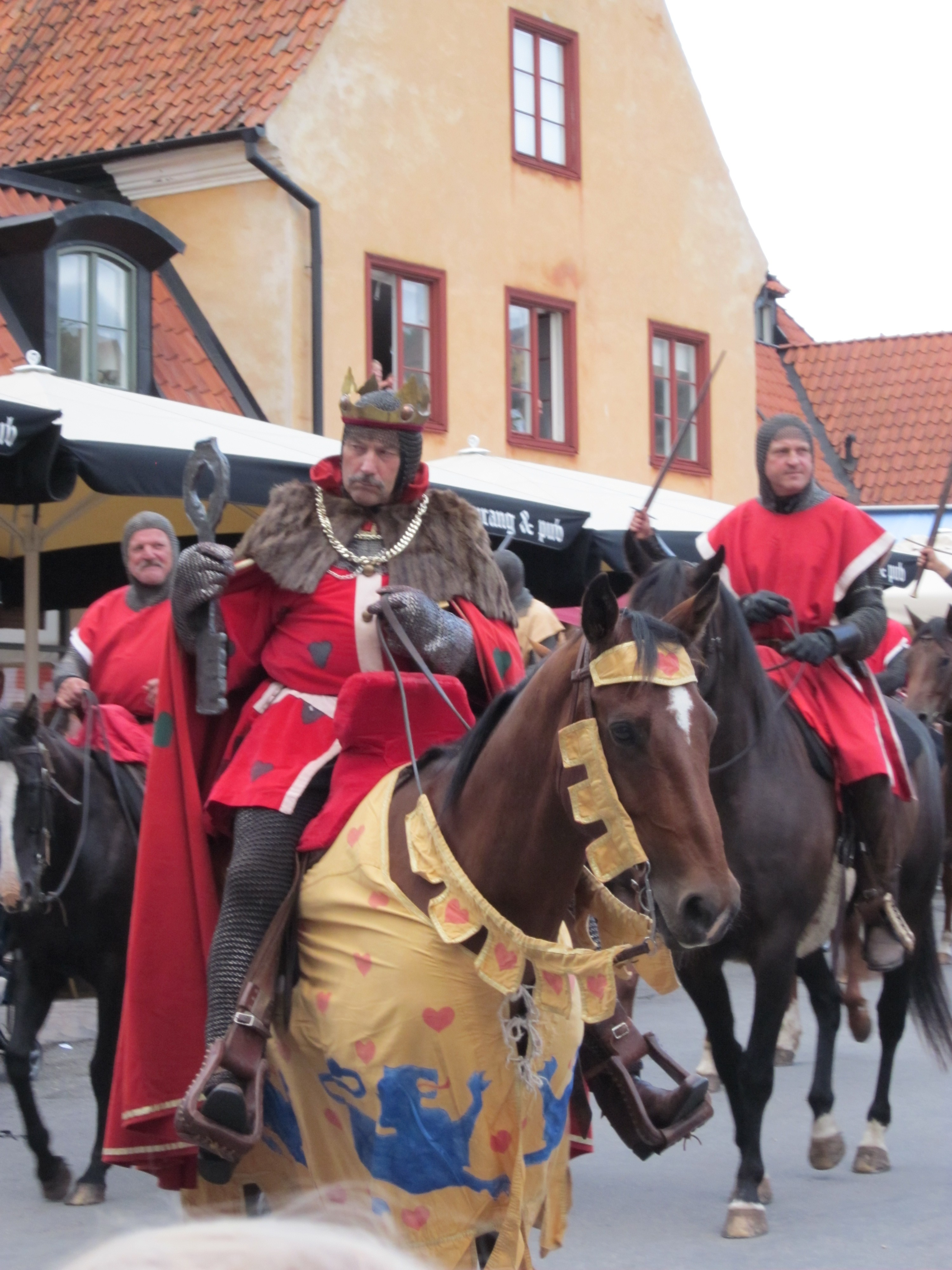 Invasion of Visby with the Danish king Valdemar Atterdag at Medieval Week on Gotland 2010. Valdemar Atterdag is played by Roland Johansson since 1986.